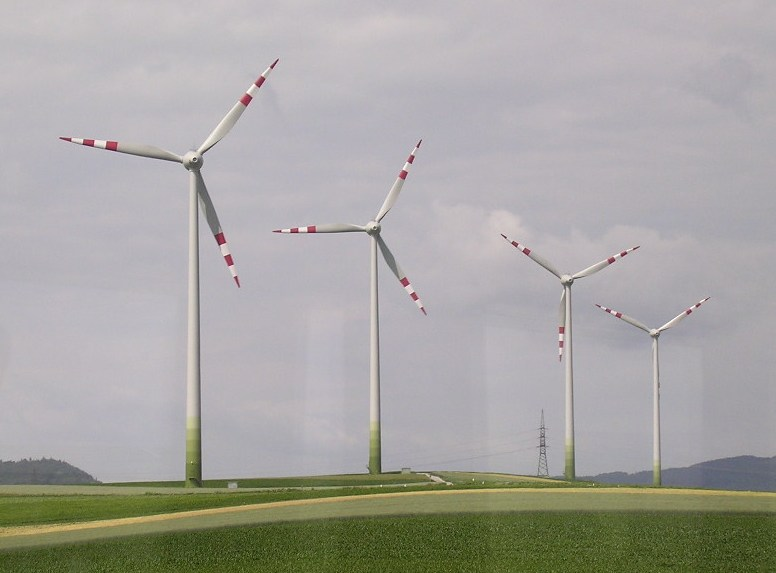 Wind farm in Austria